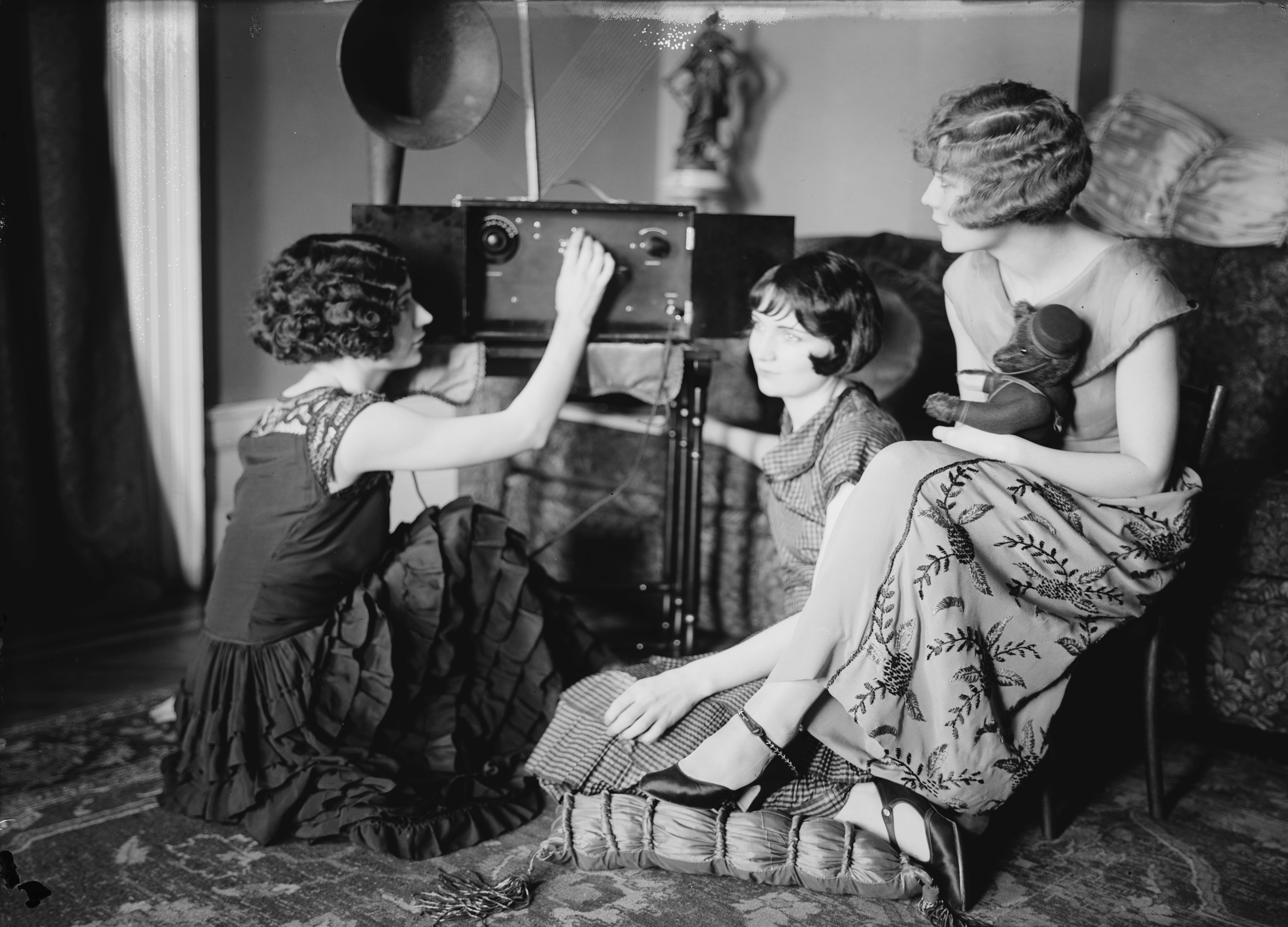 The Brox Sisters, tuning a radio. Left to right, Patricia, Bobbe, Loryane. Radio broadcasting began in the US around 1920, and at the time of this picture radio listening was an exciting new high-tech pastime. Vacuum tube radio receivers (shown) which became available about that time could drive loudspeakers, allowing the whole family to listen together, unlike the previous crystal radios which required earphones so only one person could listen at a time. Early receivers used horn loudspeakers (shown) to get adequate volume from the low gain early tubes.